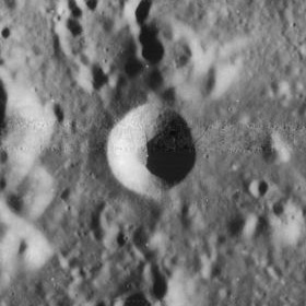 Crater Alpes A on the Moon.